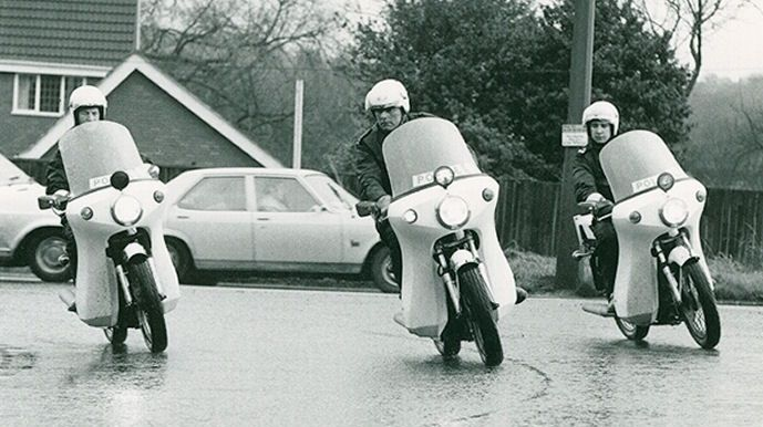 West Midlands Police say: "This photo shows some of the old police motorbikes that were used to patrol, police major incidents and respond to emergency calls."